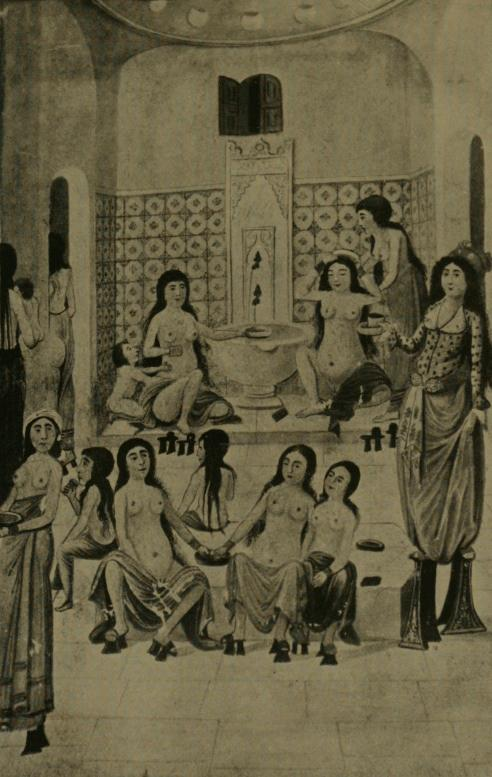 Hammam (bath house) scene from the Zanan-nameh by Fazil-Yildiz (Collection of the University of Istanbul)